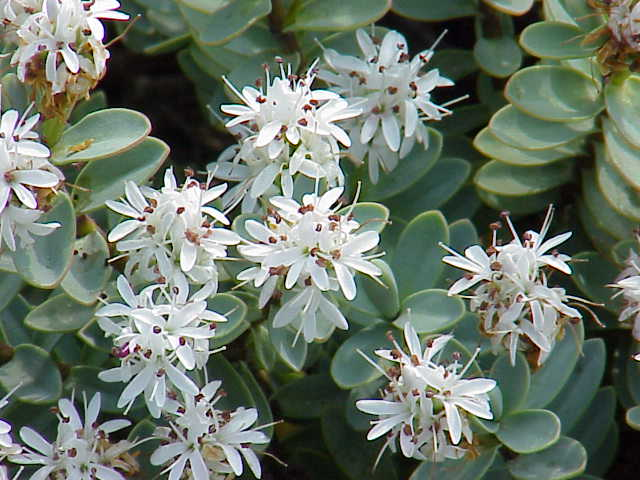 Species: Hebe pinguifolia Family: Scrophulariaceae Image No. 3